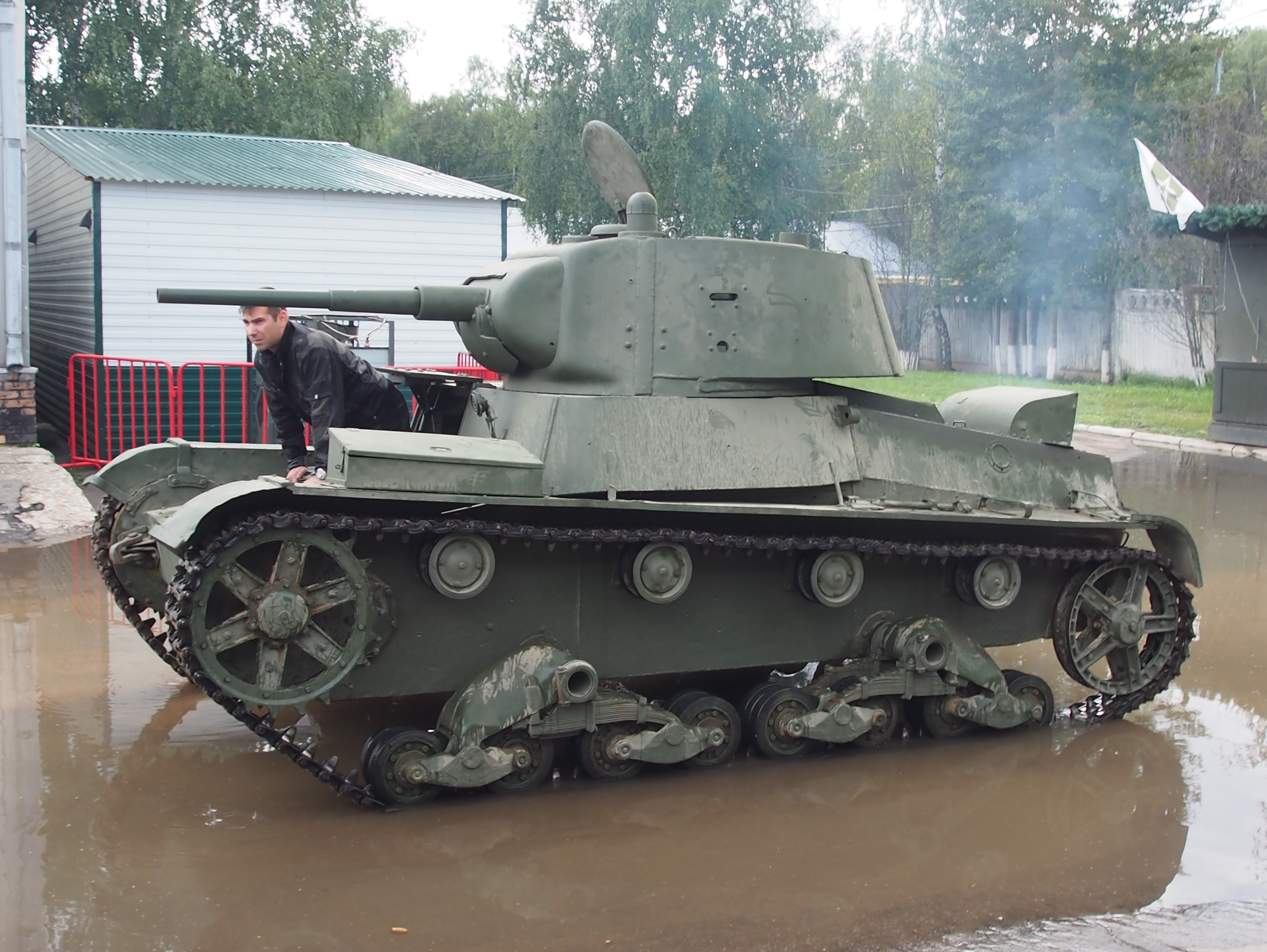 T-26 test ride in the Kubinka Tank Museum.